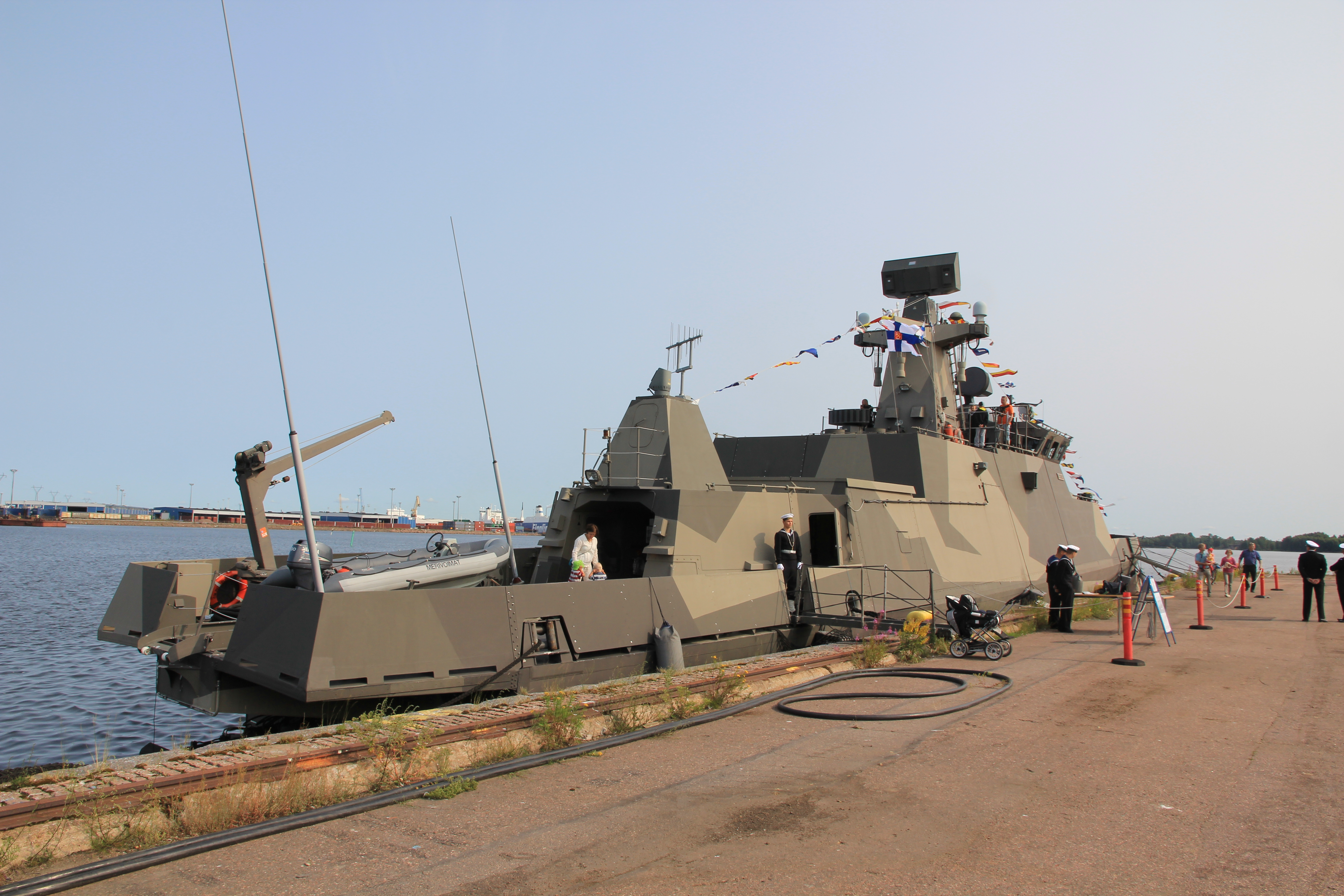 Finnish missile boat Tornio in Kotka harbour during Finnish Navy 2013 anniversary.